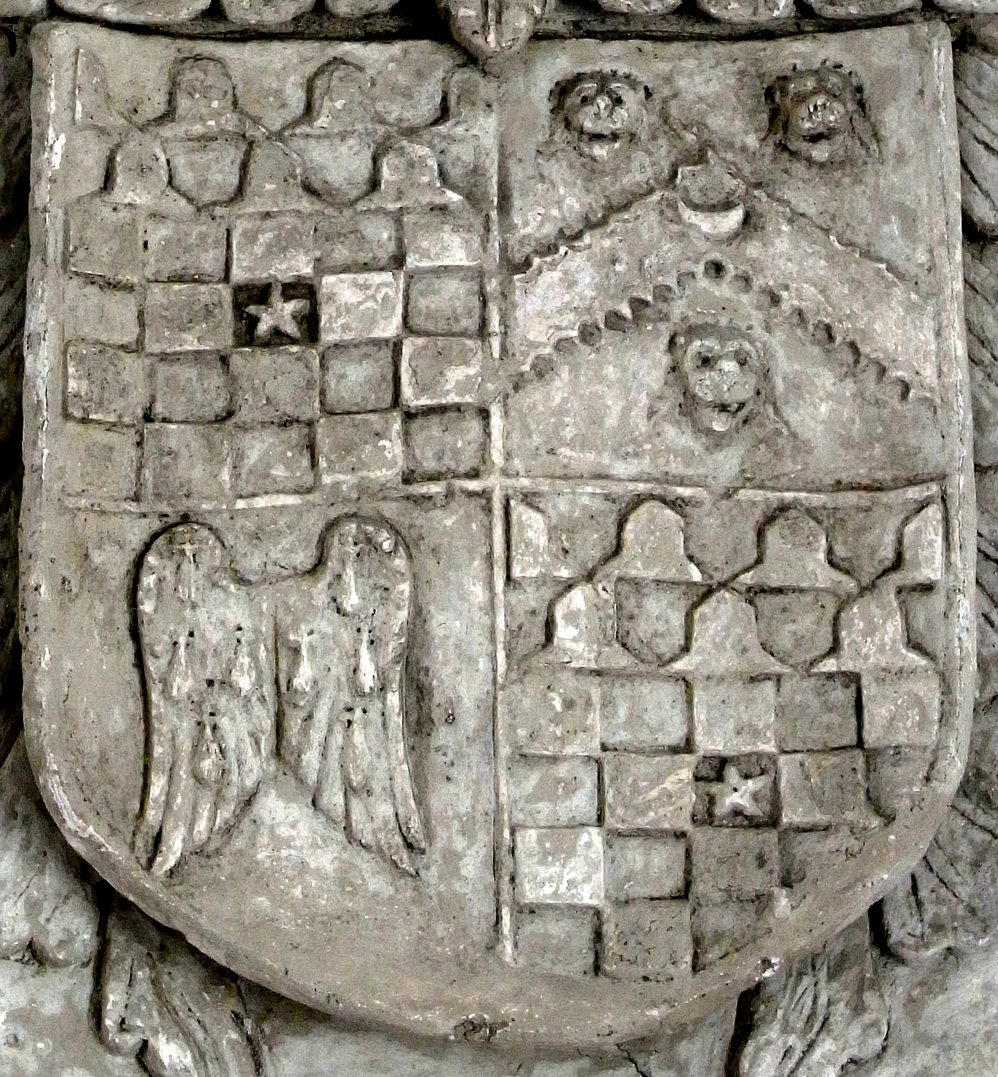 detail of 1608 strapwork plaster escutcheon of four quarters in upstairs bedroom of Ruxford Barton, near Crediton, Devon, England. Armorials 1&4: Chequy or and gules, a chief vair a mullet for difference (Chichester); 2: Argent, a chevron engrailed gules between three lion's faces azure a crescent for difference (Copleston of Eggesford); 3: Gules, a pair of wings conjoined ermine (de Reigny of Eggesford). With initials "EC" and "AC" for Edward Chichester, 1st Viscount Chichester (1568-1648) and his wife Anne Copleston (1588–1616), sole daughter and heiress of John Copleston (died 1606) of Eggesford